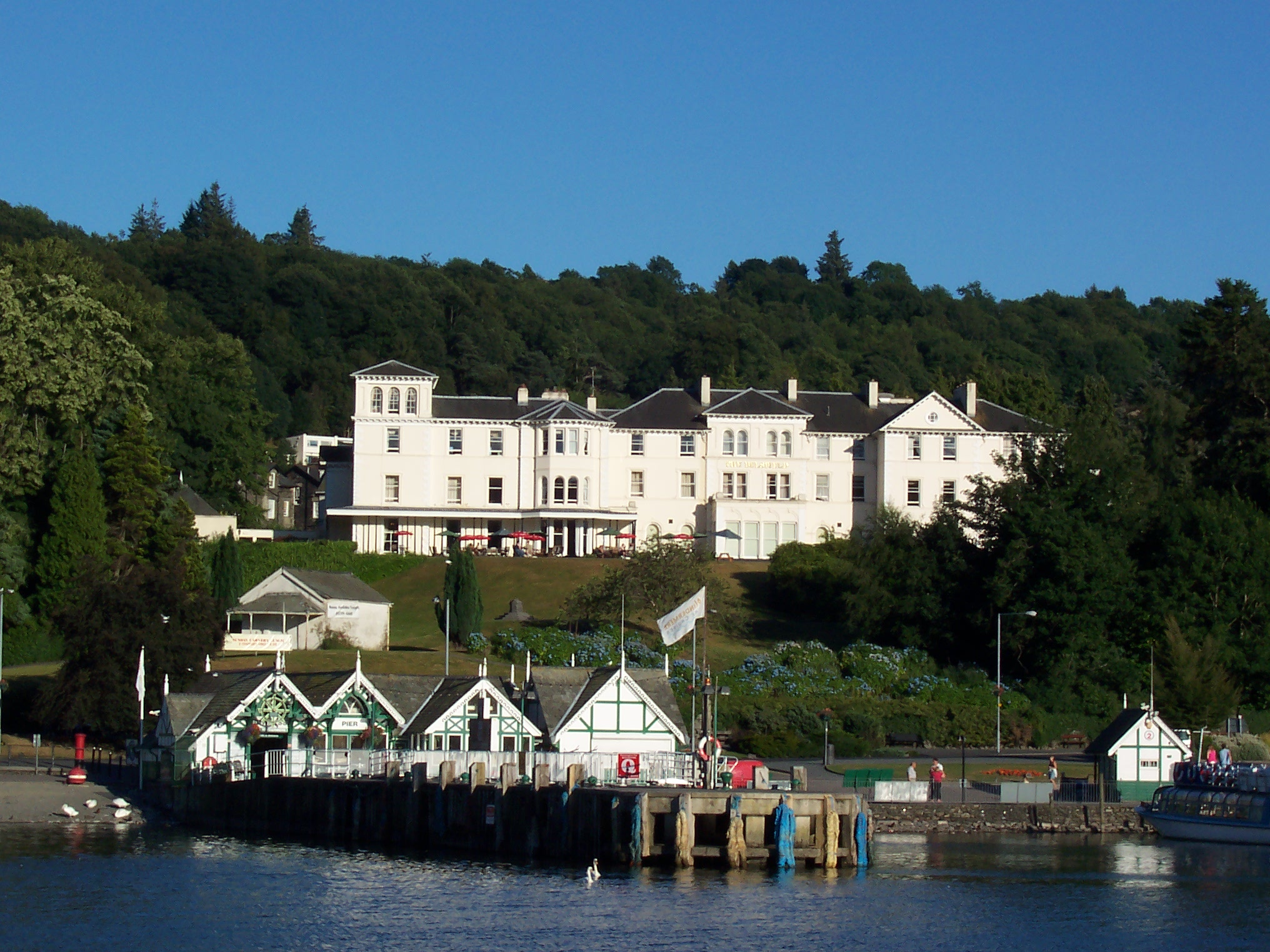 Windermere Lake with Belsfield Hotel in the background, England